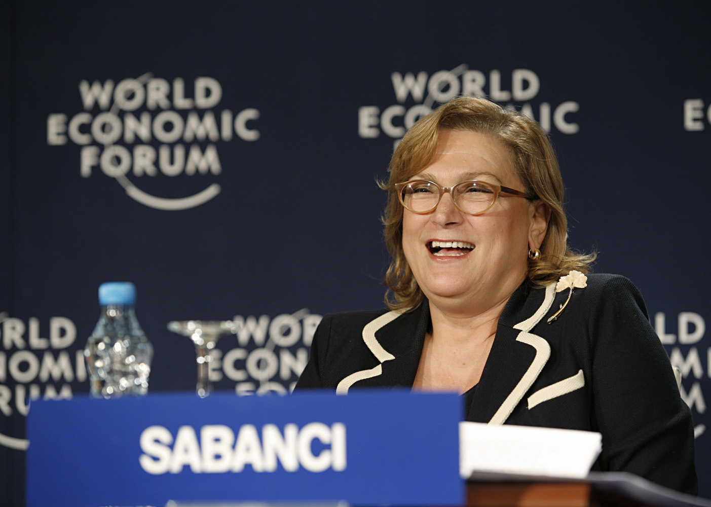 Güler Sabancı, Turkish businesswoman, at the World Economic Forum on Europe and Central Asia in Istanbul, Turkey.